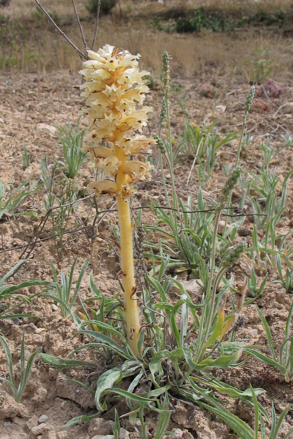 (Not an orchid) Photo taken in the Sirre Aitana approx. 120km south of Valencia (Spain).